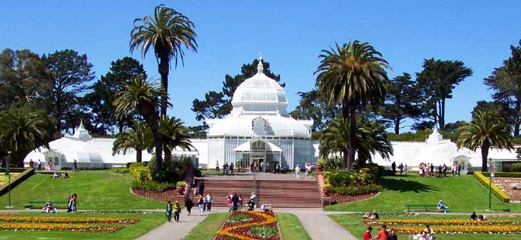 Summary Edited version of SF Conservatory of Flowers.jpg